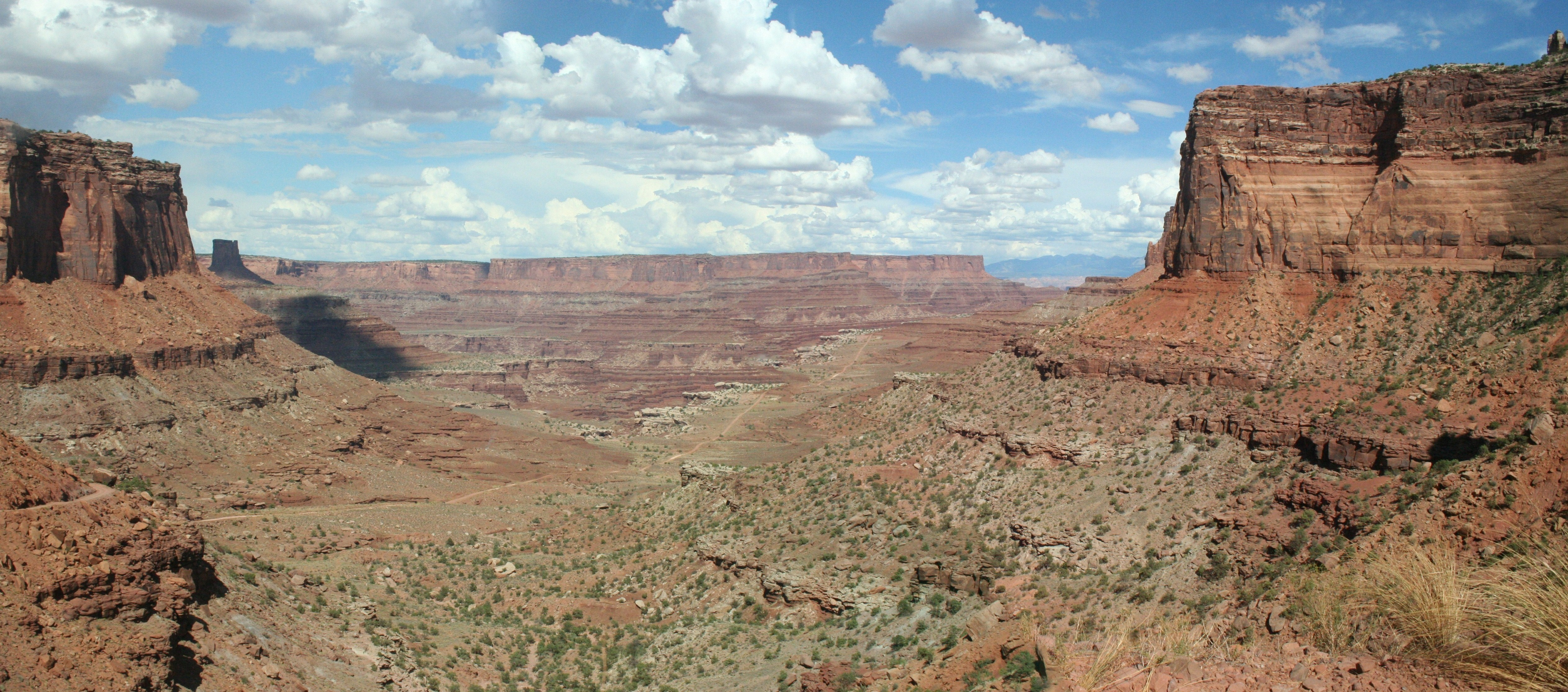 White Rim Road view in Canyonlands National Park